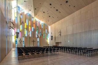 Edith_Lundebrekke: skal krediteres fotografen Anne-Line Bakken